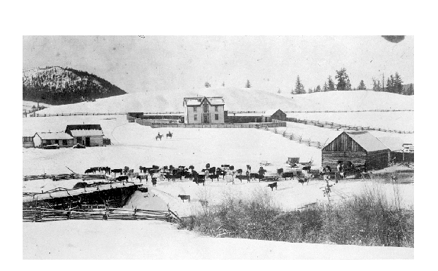 Photo taken 1890 Photographer: Unknown Source: #A-02405 [1]